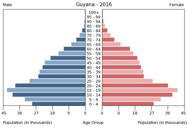 The population pyramid of Guyana illustrates the age and sex structure of population and may provide insights about political and social stability, as well as economic development. The population is distributed along the horizontal axis, with males shown on the left and females on the right. The male and female populations are broken down into 5-year age groups represented as horizontal bars along the vertical axis, with the youngest age groups at the bottom and the oldest at the top. The shape of the population pyramid gradually evolves over time based on fertility, mortality, and international migration trends.